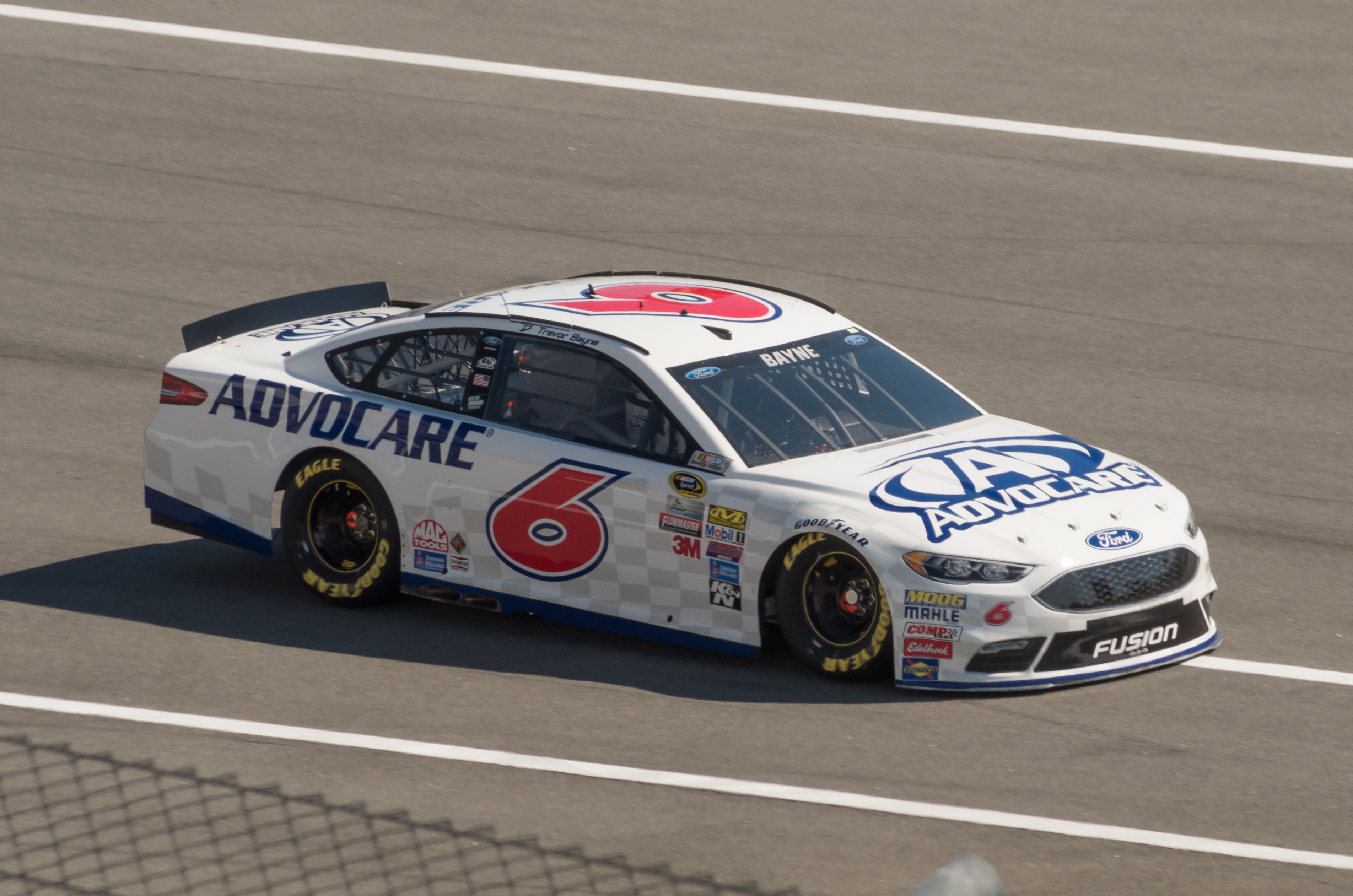 Trevor Bayne